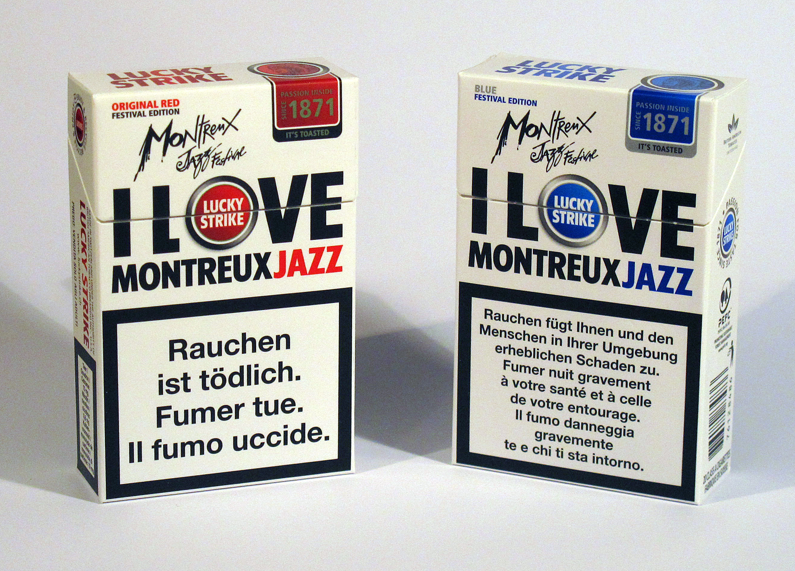 Pack of Lucky Strike cigarettes, special edition for Montreux Jazz Festival, July 2012